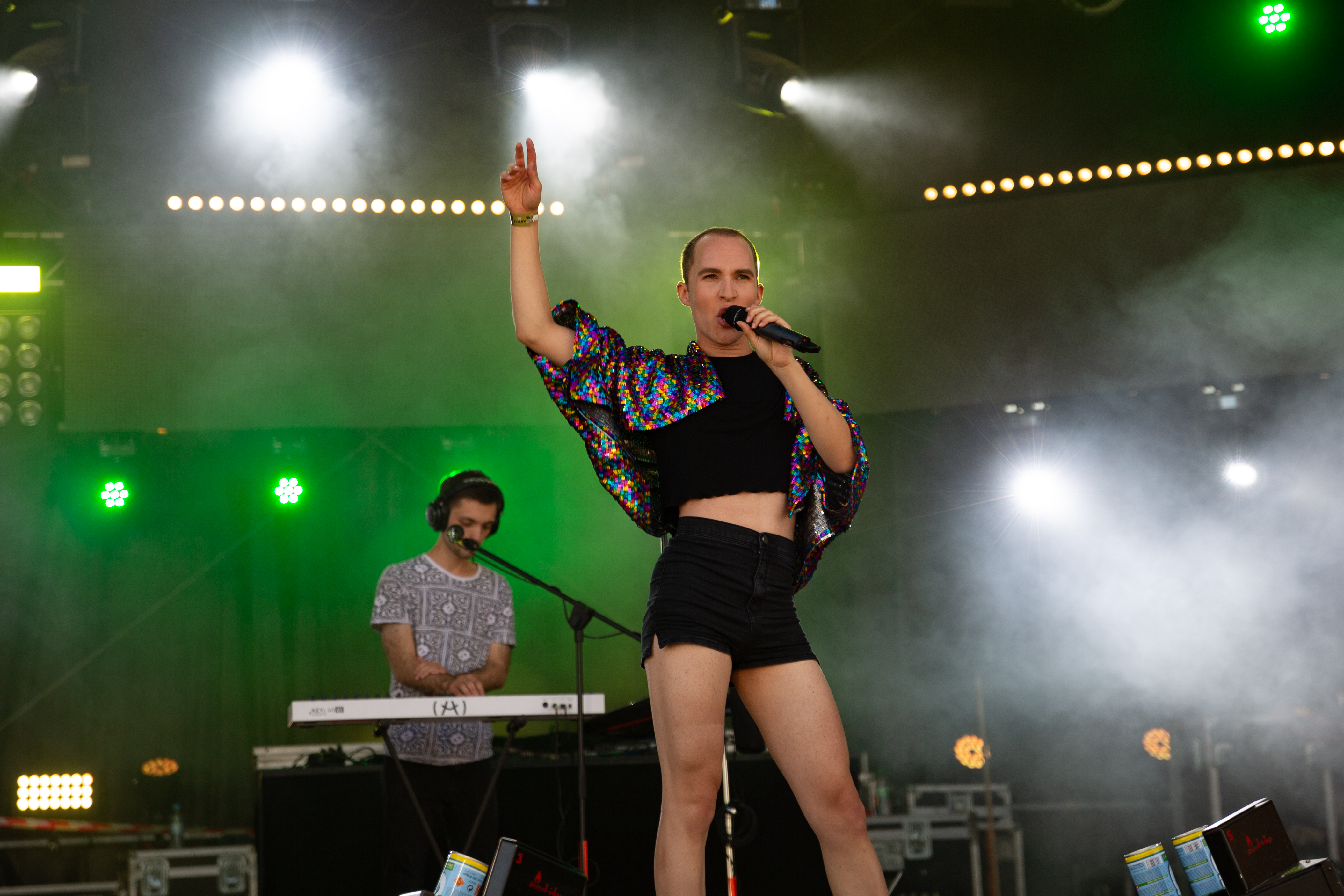 Leopold at SonneMondSterne 2018, Second Stage